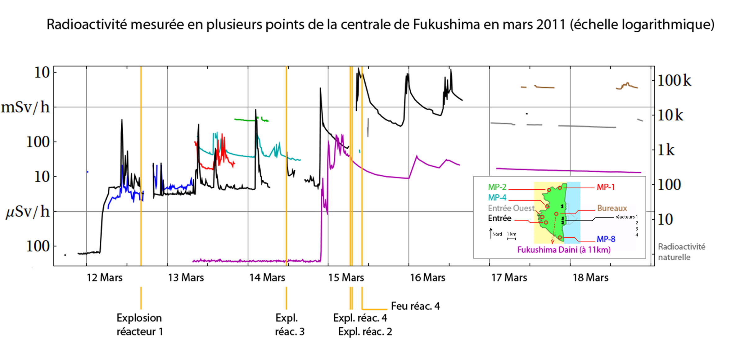 A logarithmic plot of the radiation levels at various monitoring points at the Fukushima I and Fukushima II Nuclear Power Plant during the crisis caused by the 2011 Tōhoku earthquake and tsunami. Data collected from TEPCO's webpage: [1]